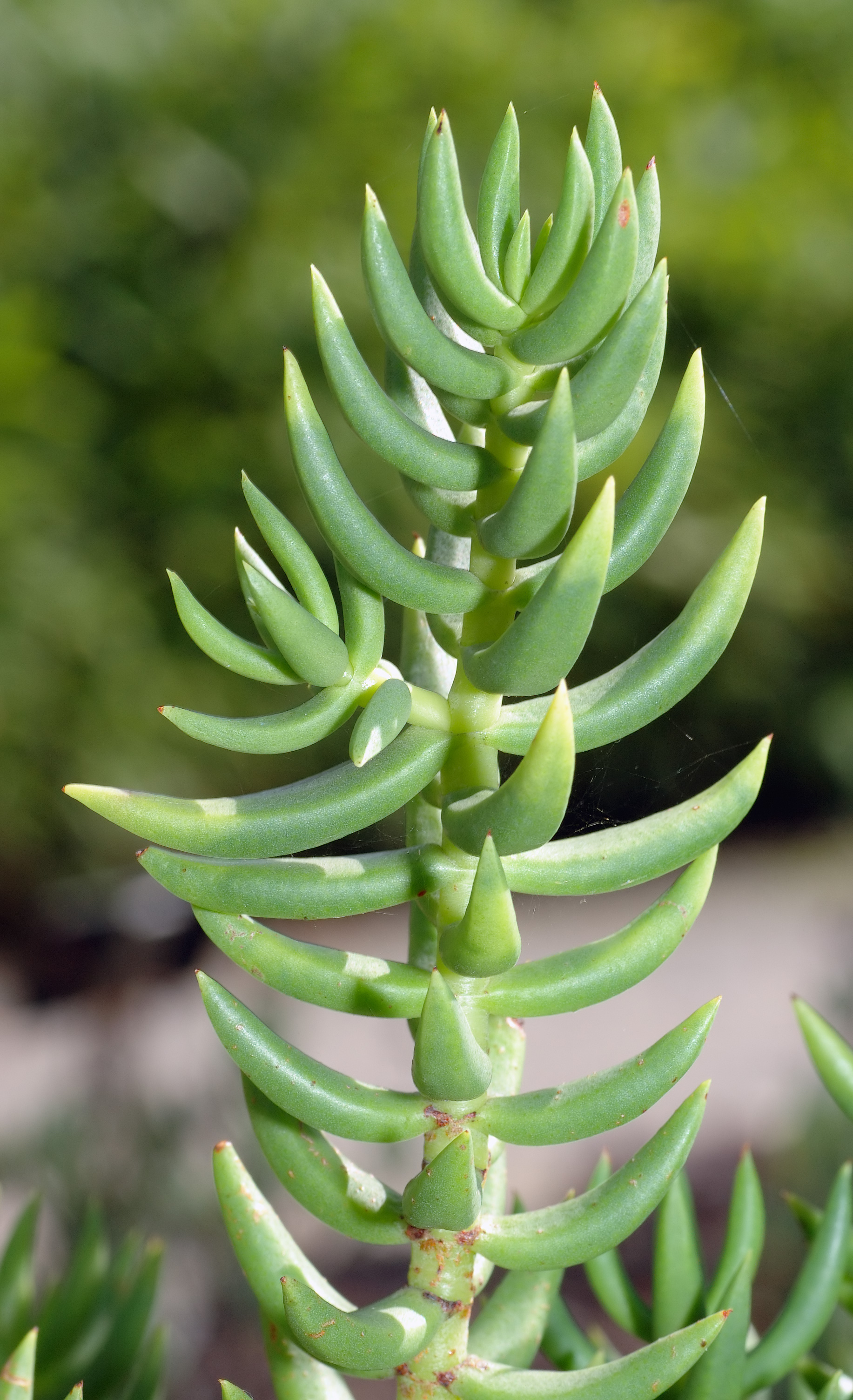 This image shows the leafs of a plant of the species Crassula tetragona.